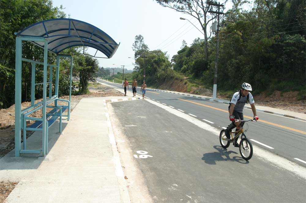 image form city Poá